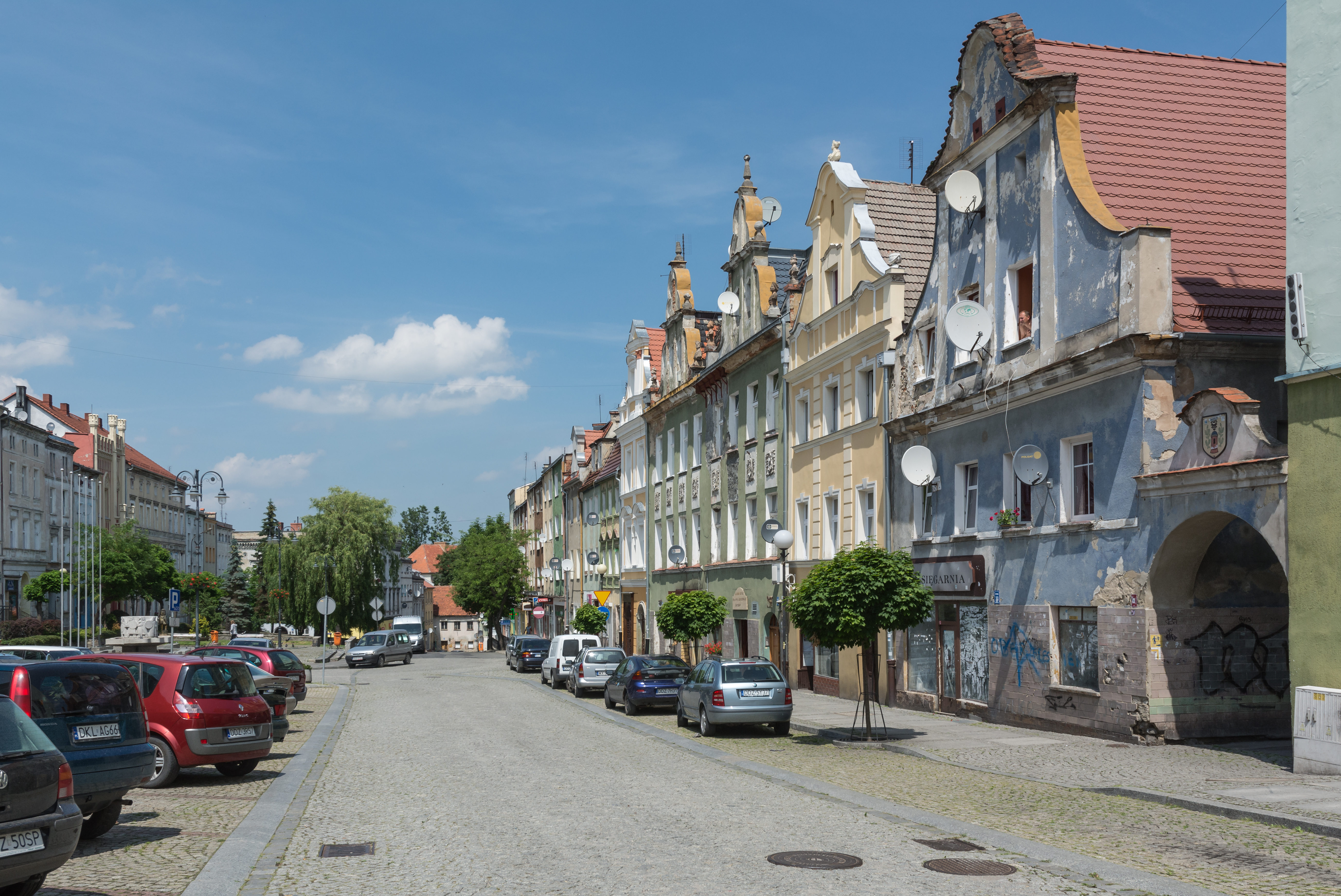 Market Square in Niemcza, estern frontage